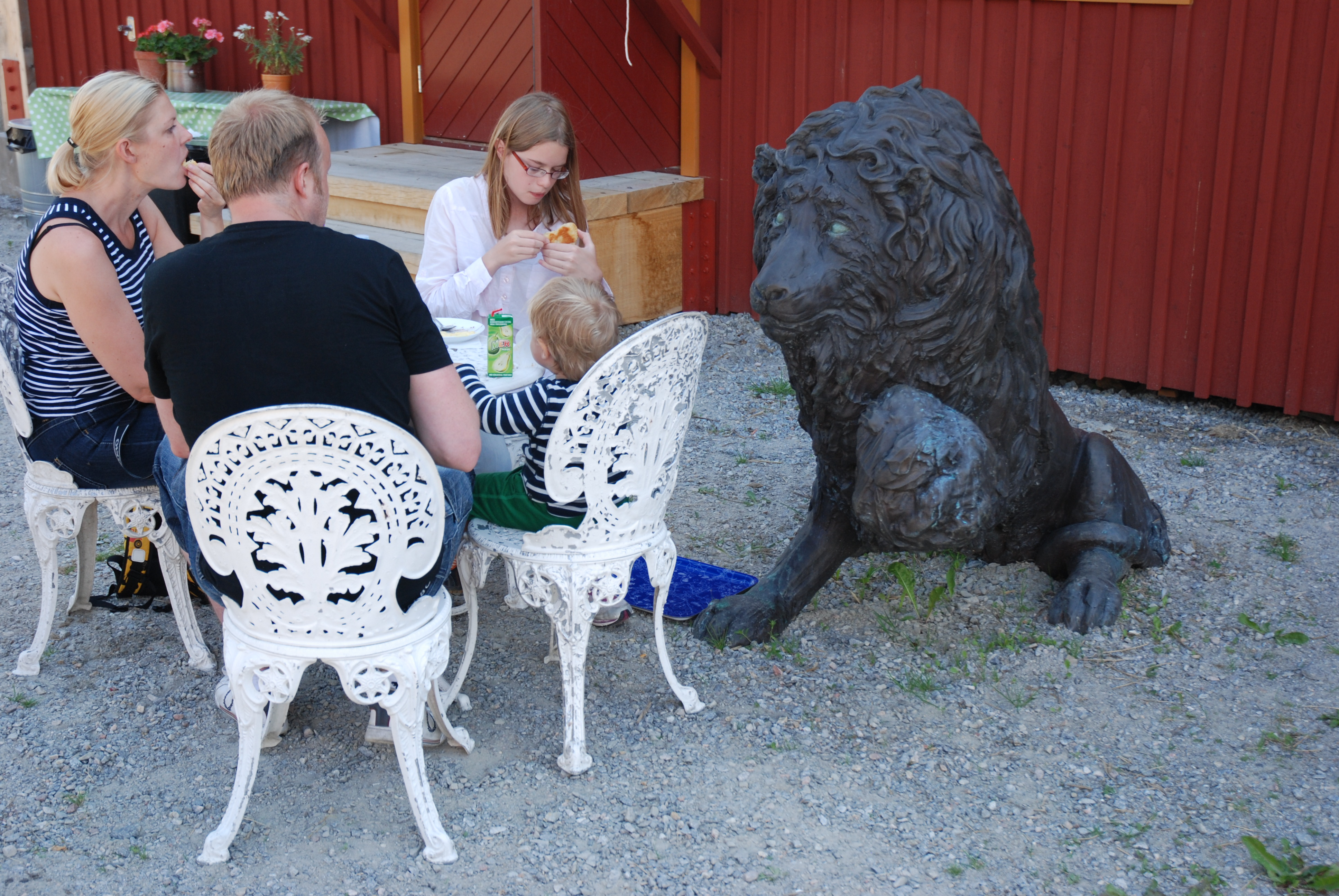 Laura Ford´s Lion at Pilane Sculpture Park in Sweden 2011